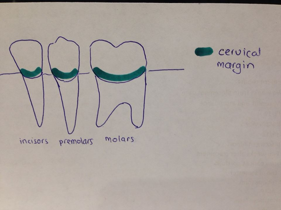 Cervical margin surface of the tooth is highlighted in green